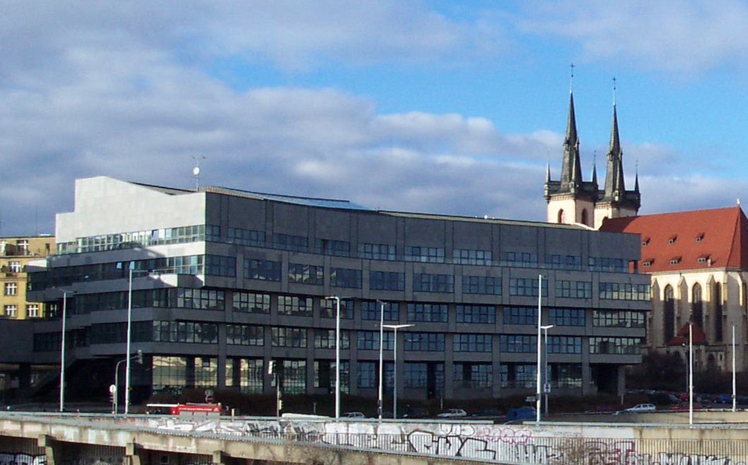 Headquarters of Galileo system in Prague.